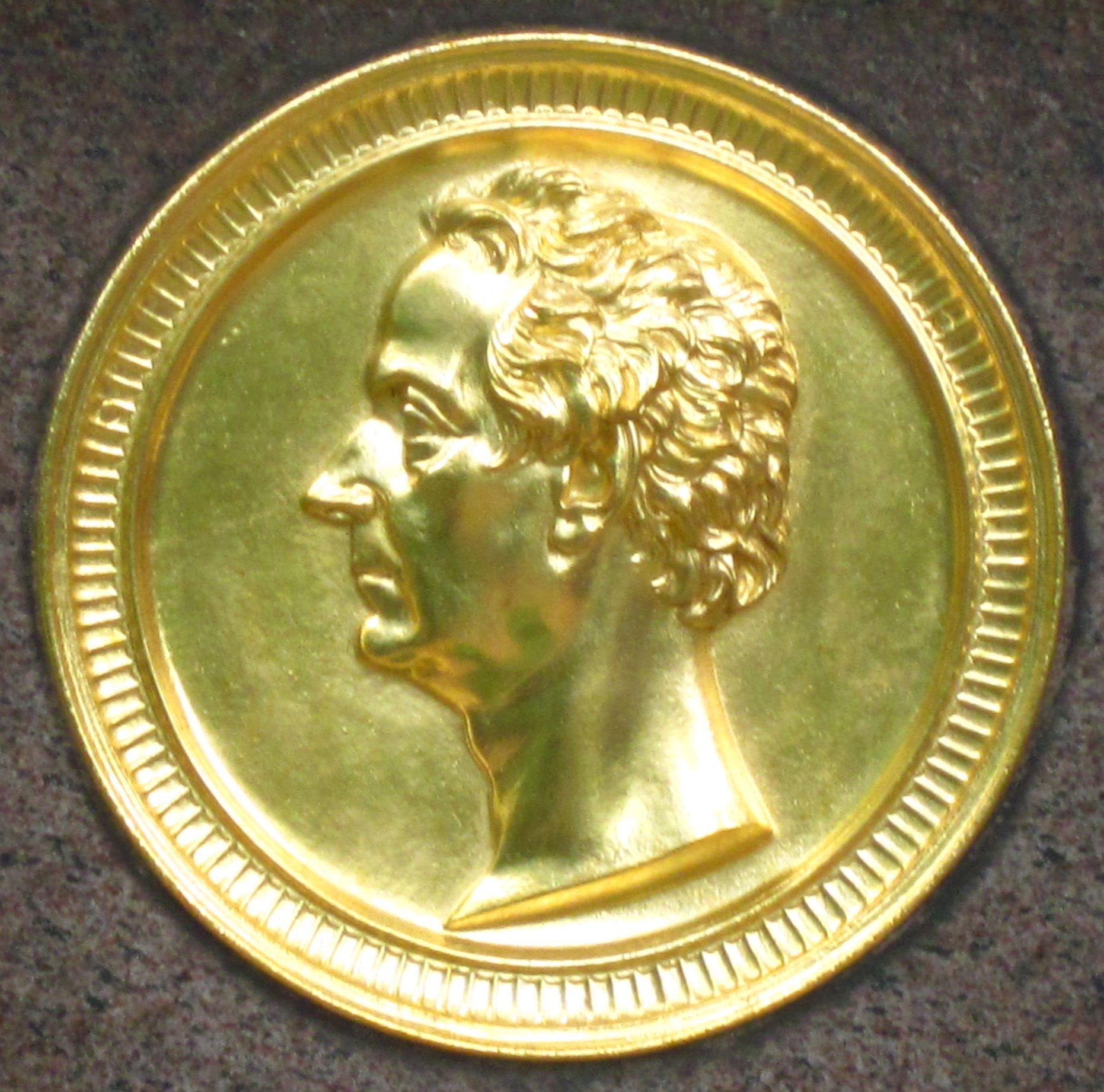 Portrait tondo of the Protestant theologian Philipp Konrad Marheineke (1780-1846) on his gravestone on the Dreifaltigkeitsfriedhof II at Bergmannstraße in Berlin-Kreuzberg.